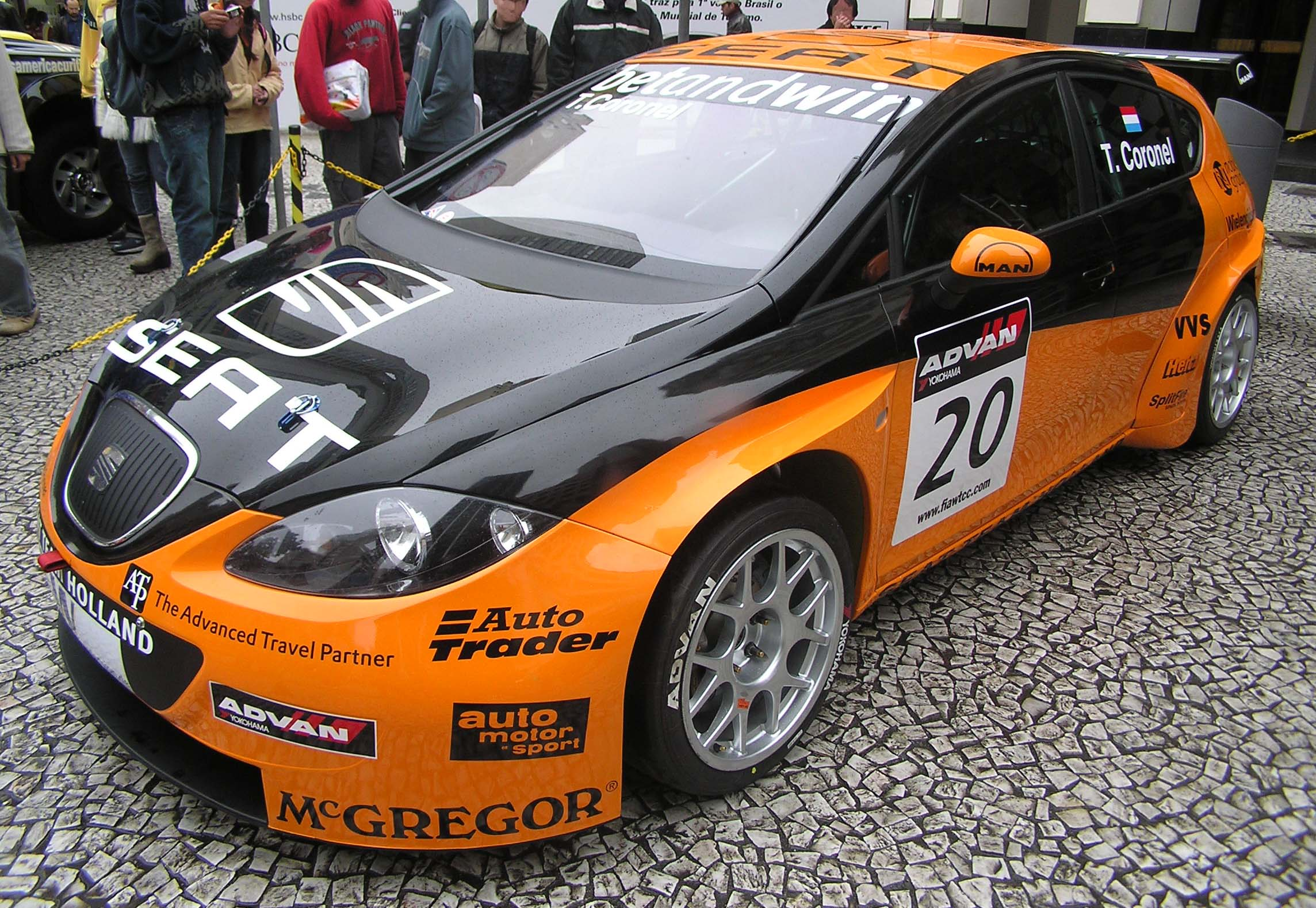 World Touring Car Championship 2006: SEAT León (GR Asia)